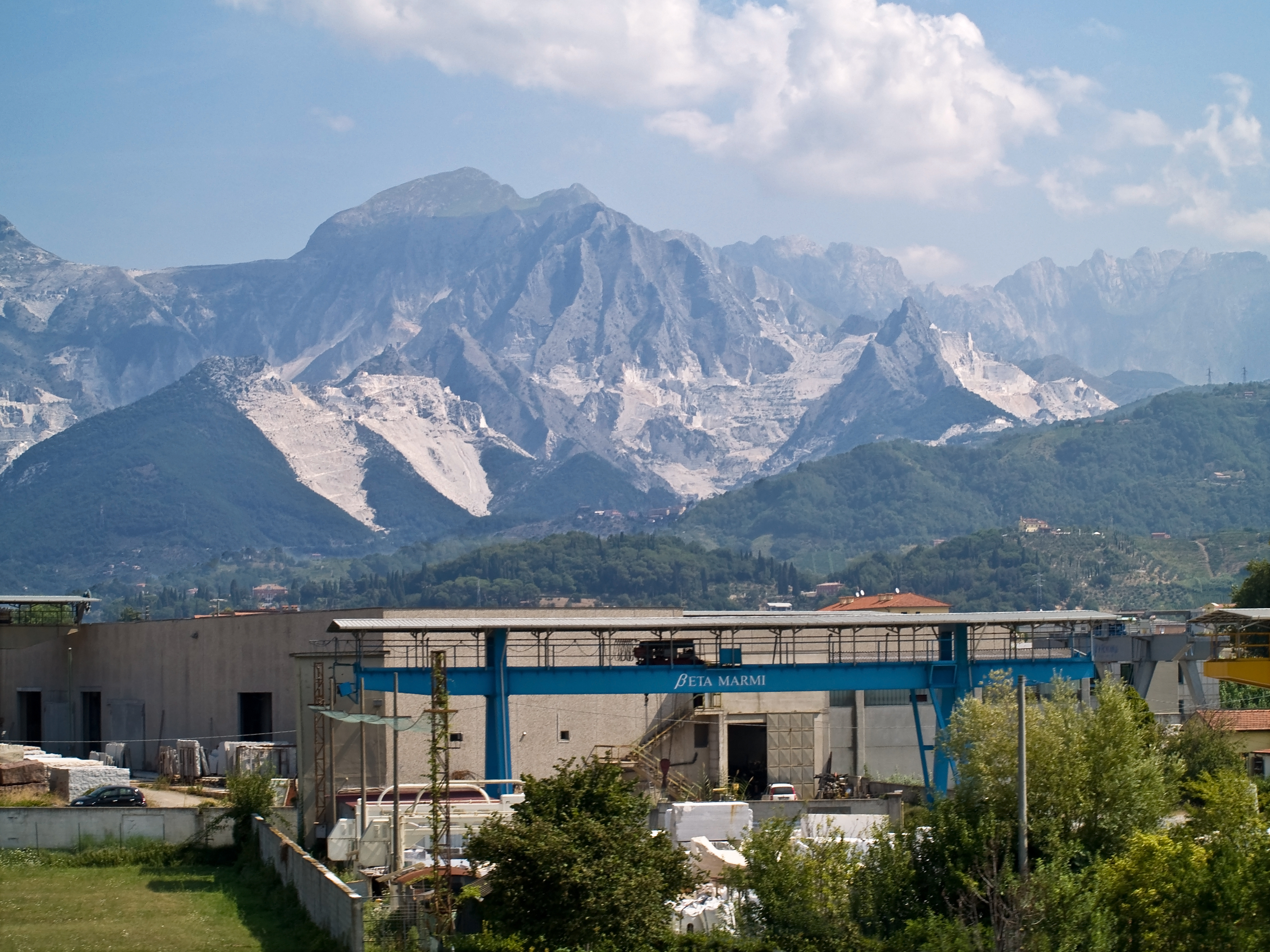 Carrara marble exploitation, in Italy. In the background, the marble quarries in The Alpi Apuane.